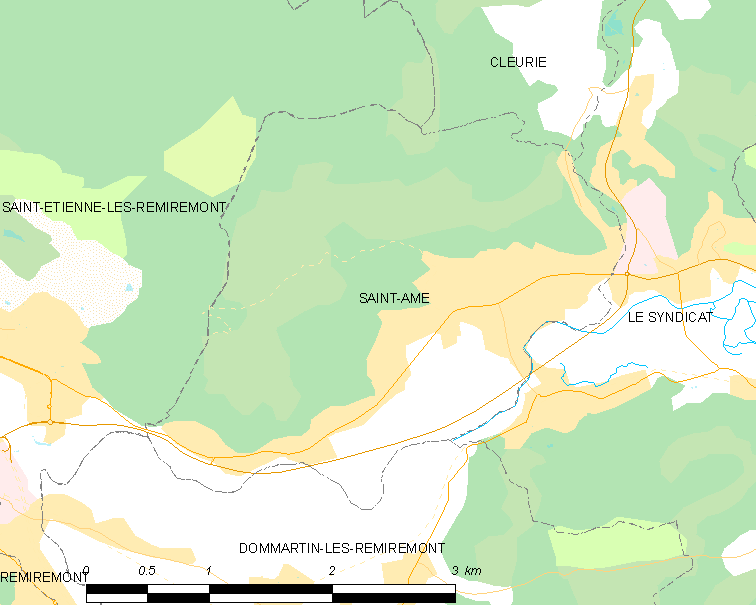 Map of French municipality Saint-Amé